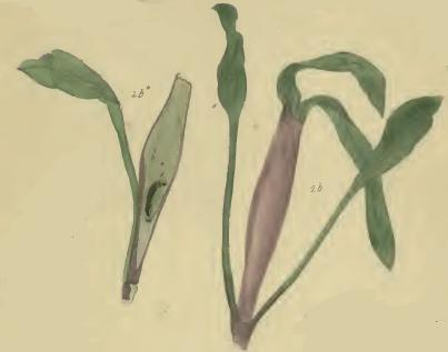 Stainton’s Natural History of the Tineina (1855–1873): Caryocolum cauligenella a swollen stem of Silene nutans (2b); swollen stem sectioned, showing the larva within (2b*)